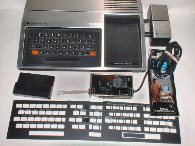 1979 TI-99/4 with Speech Synthesizer, RF modulator, keyboard overlays.